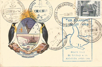 Postcard with postmark of Argentine Antarctic Bases and the ship Les Eclaireurs 1958